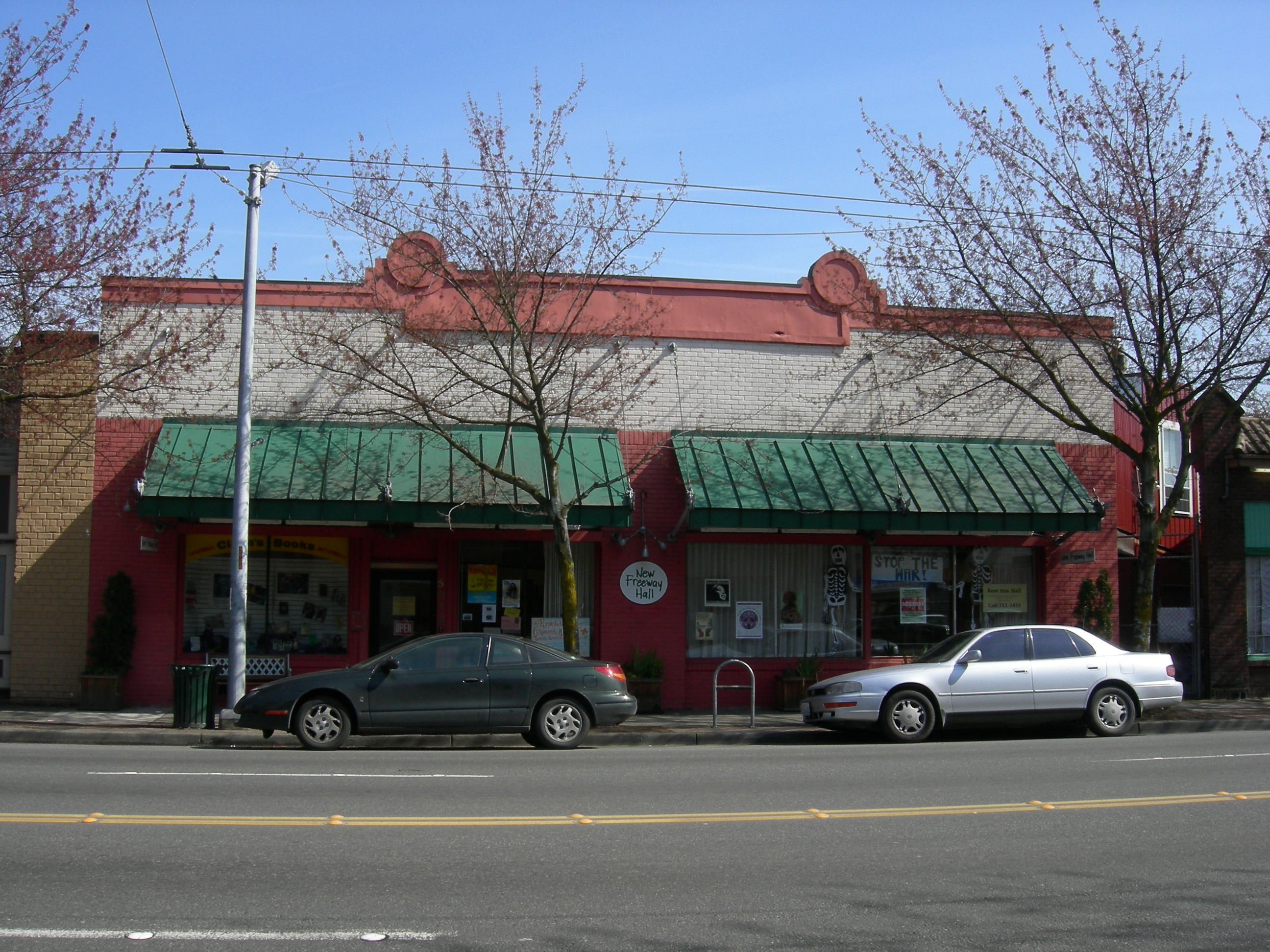 New Freeway Hall, Columbia City, Seattle, Washington. Headquarters of the Freedom Socialist Party.